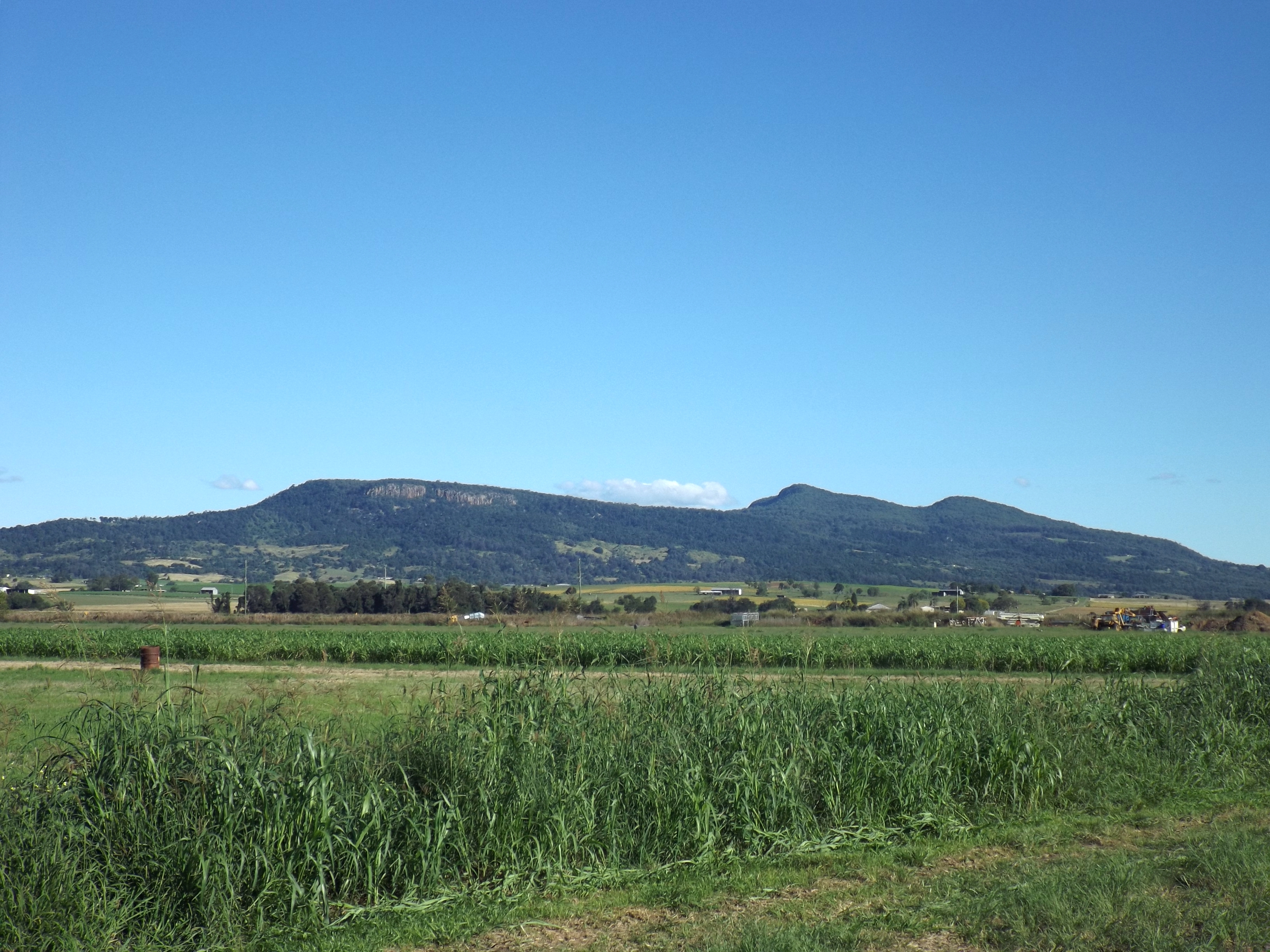 Mount French viewed from Kents Lagoon, Scenic Rim, Queensland, Australia.